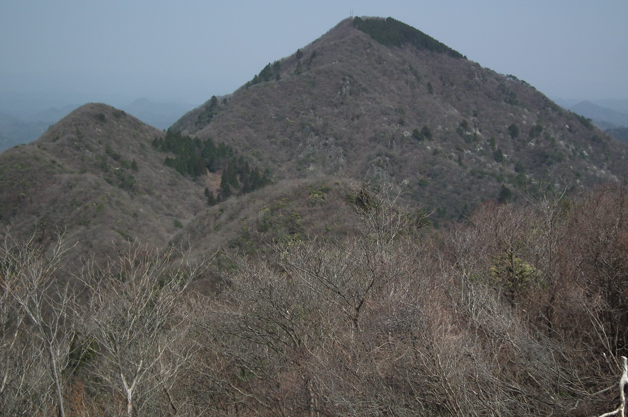 Mt. Mitake